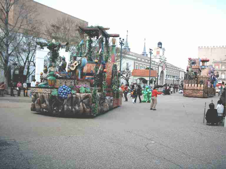 Shima-spain-mura, a resort complex in Shima city, Japan.